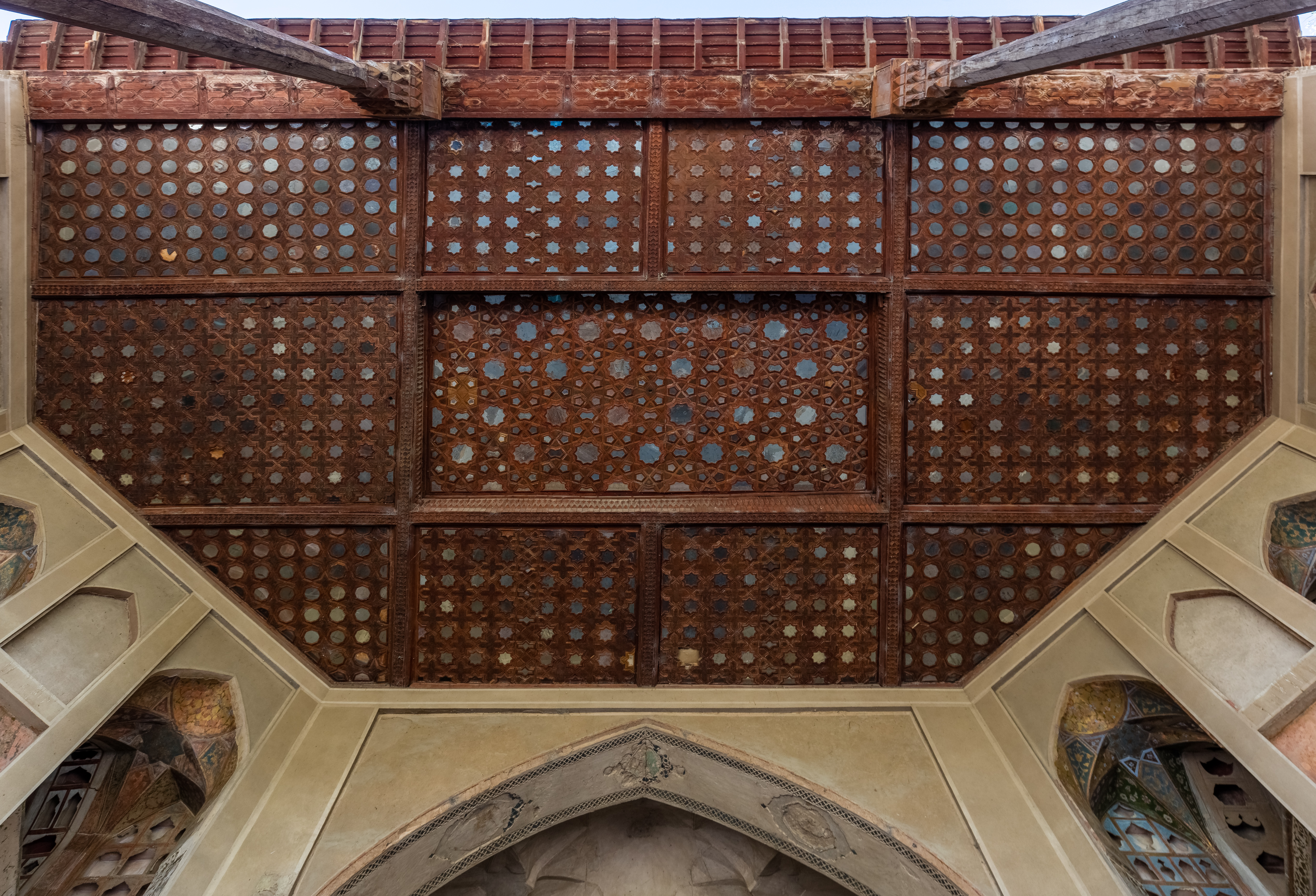 Hasht Behesht Palace, Isfahan, Iran